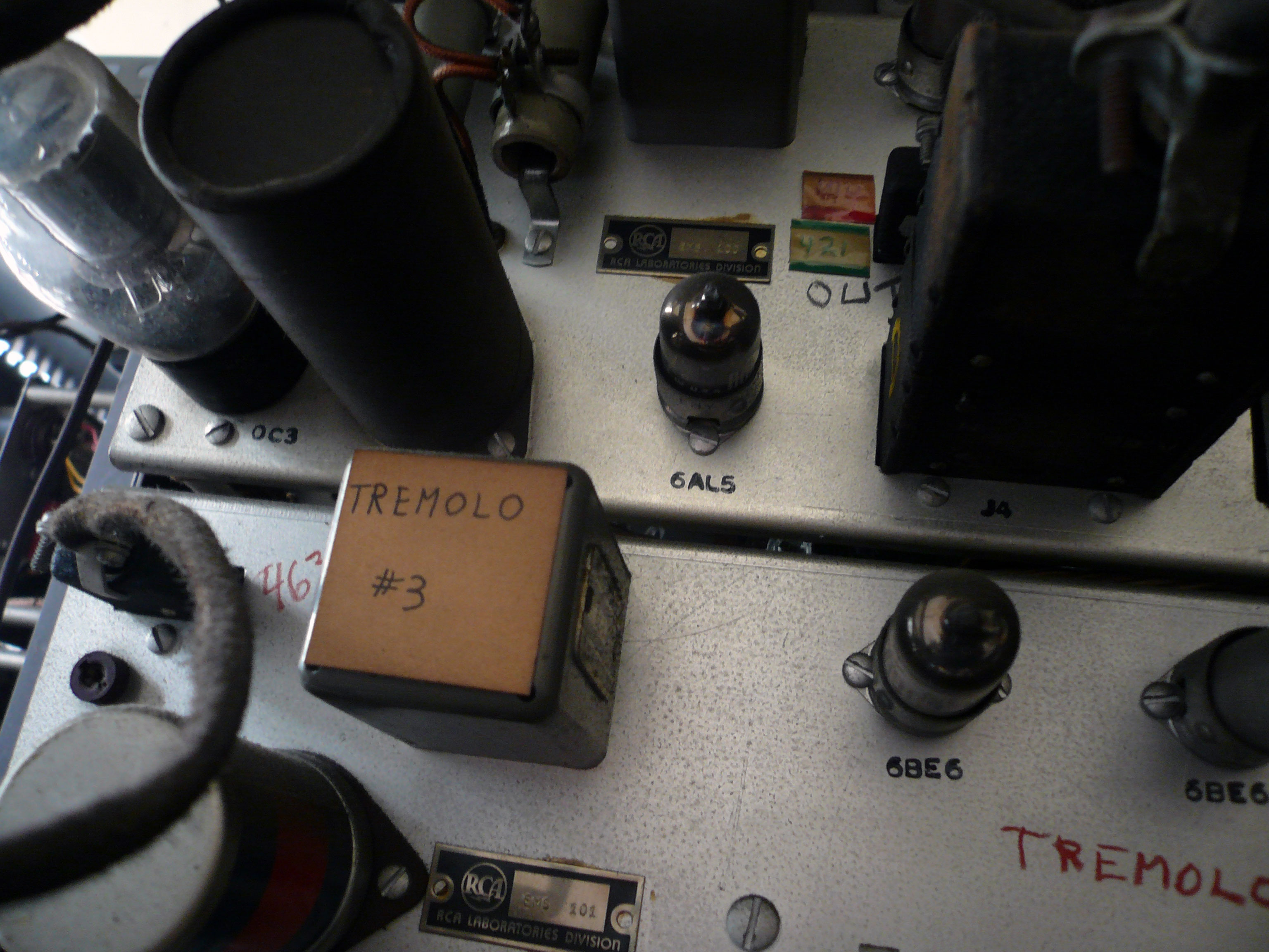 The 'Victor' (nickname of RCA Mark II Sound Synthesizer) that lives up at Columbia University 's Computer Music Center. It was one of the first synthesizers. They thought it would replace the orchestra, but instead it was very difficult to keep consistent. Instead it was given to Columbia which used it to teach avant garde electronic musicians. I was told that Bob Moog worked with it in school.